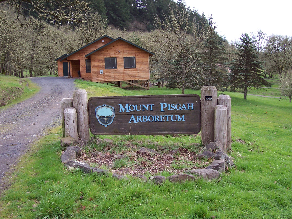 Mt. Pisgah Arboretum sign at the bottom of Mt. Pisgah in Eugene, OR